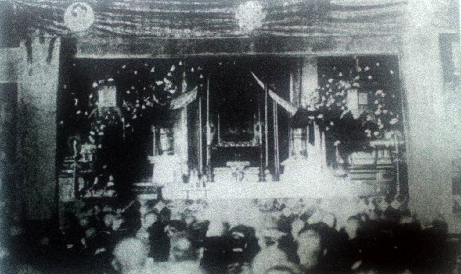 Photo of the Kaidan at Taisekiji, entitled "Kaidan no Dai Gohonzon." Published in the 1915 book, Nichiren Daishōnin by Yui Kōkichi.